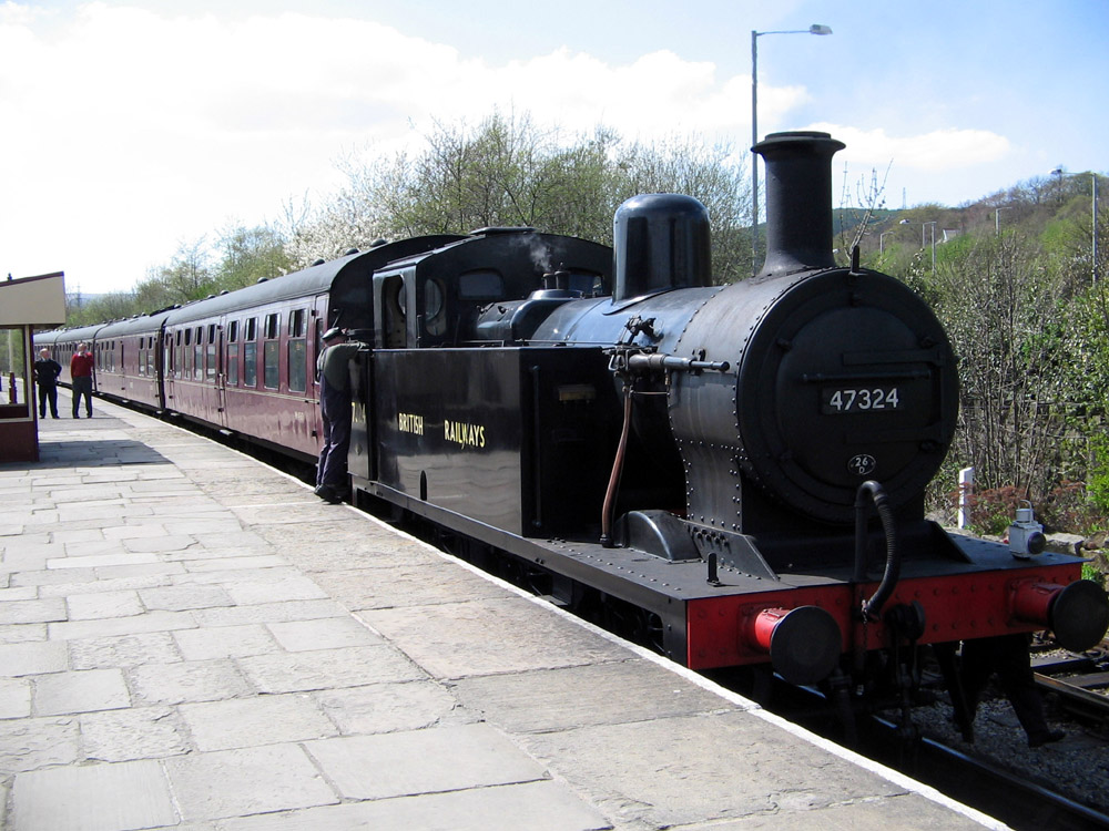 A Class 3F "Jinty" locomotive hauled train at Rawtenstall station on the East Lancashire Railway. Photo by G-Man * Apr 2006